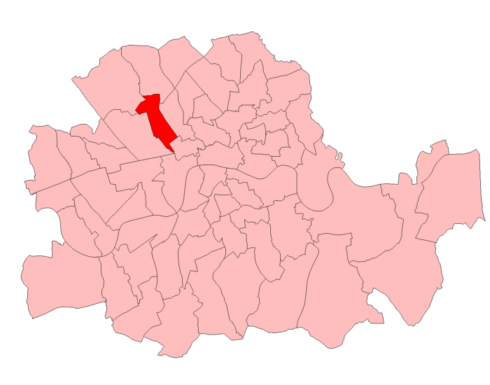 A map of St Pancras South West constituency within the London County Council area, as it existed from 1918 to 1949.